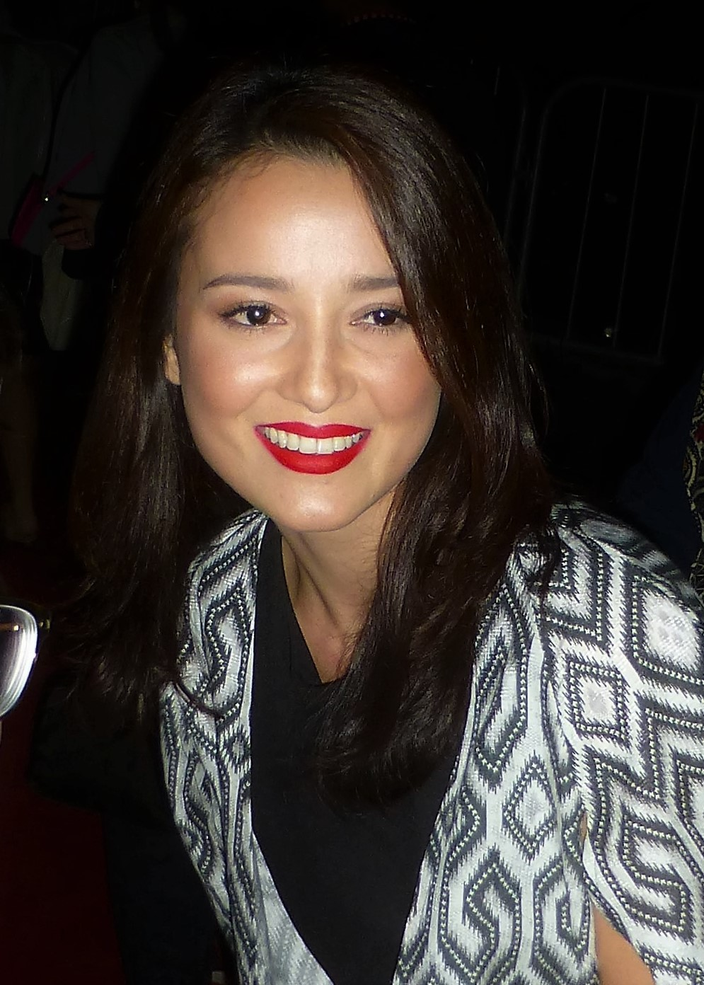 Julie Estelle at the premiere of Headshot, 2016 Toronto Film Festival